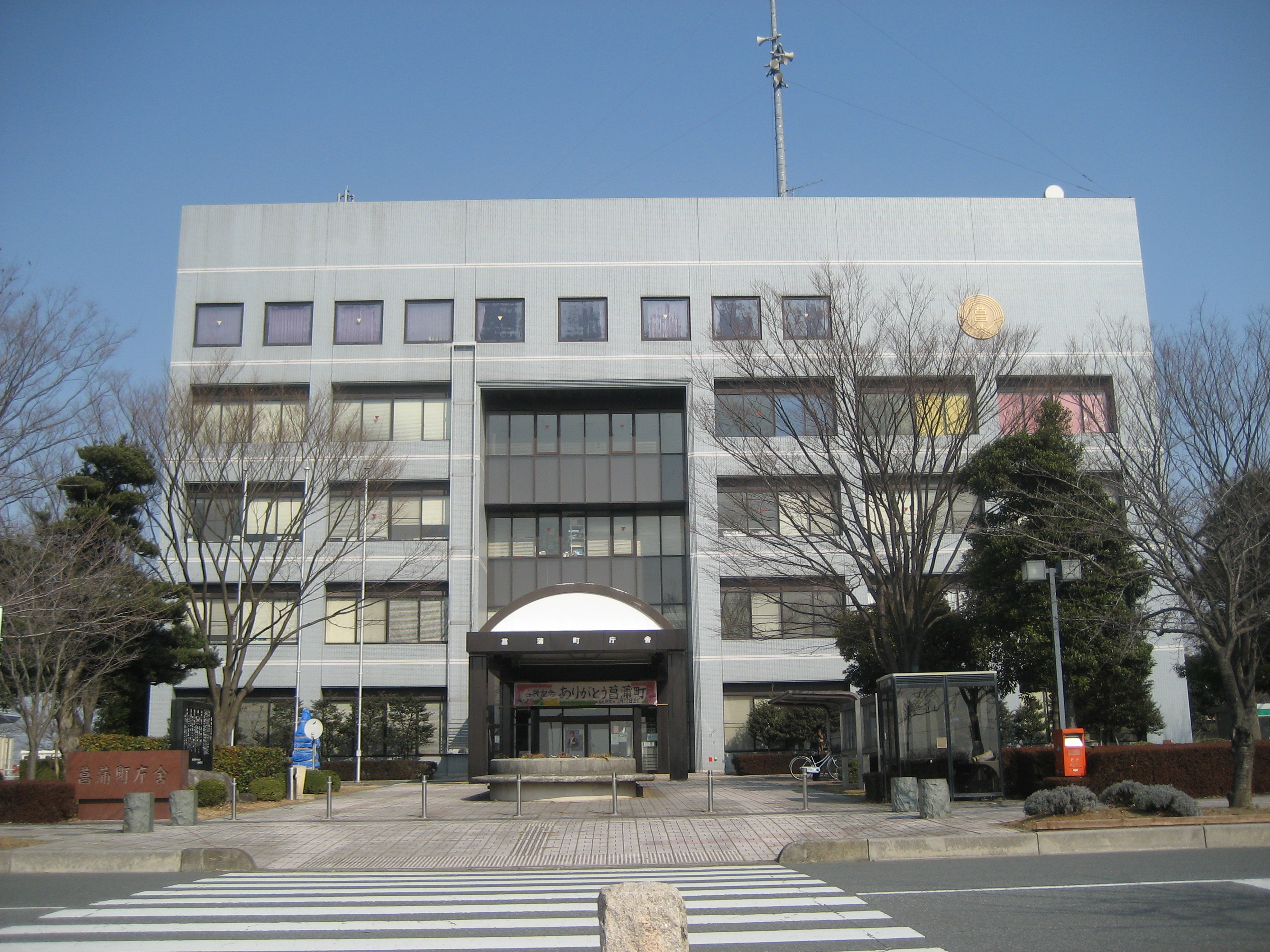 Former Shōbu town office (Kuki city office Shōbu branch)